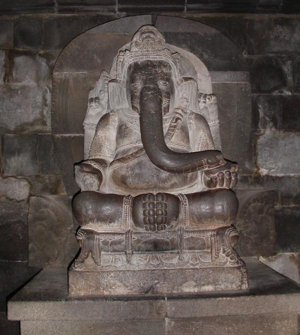 The ganesha statue, at Prambanan, Indonesia. Its trunk is polished by the many visitors. It is said that touching the trunk, then your forehead, will increase your creativity. The right hand holding its broken tooth was destroyed during an earthquake.